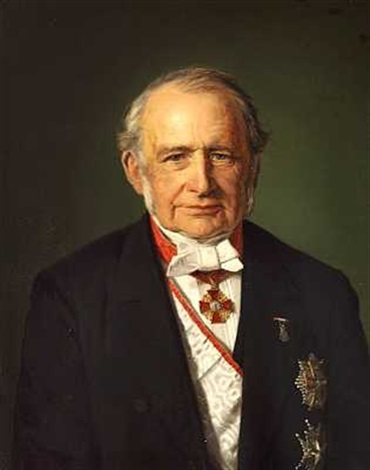 Portræt af kabinetssekretær Jens Peter Trap. Om halsen bærer han den russiske Sankt Anna orden